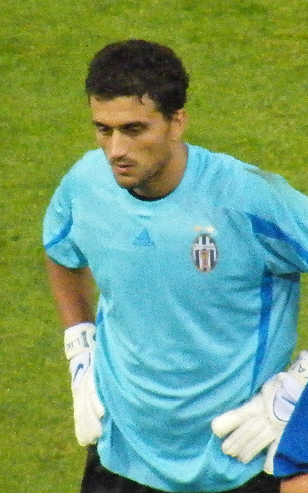 Ilion Lika Albanian football player